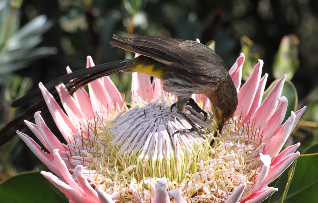 Promerops caferCape Sugarbirds, male and female. I was lucky, shooting with a 90 mm macro lens when the birds landed in front of my face, on the flower I was photographing. It happened TWICE, which has never happened ONCE before in 20 years!